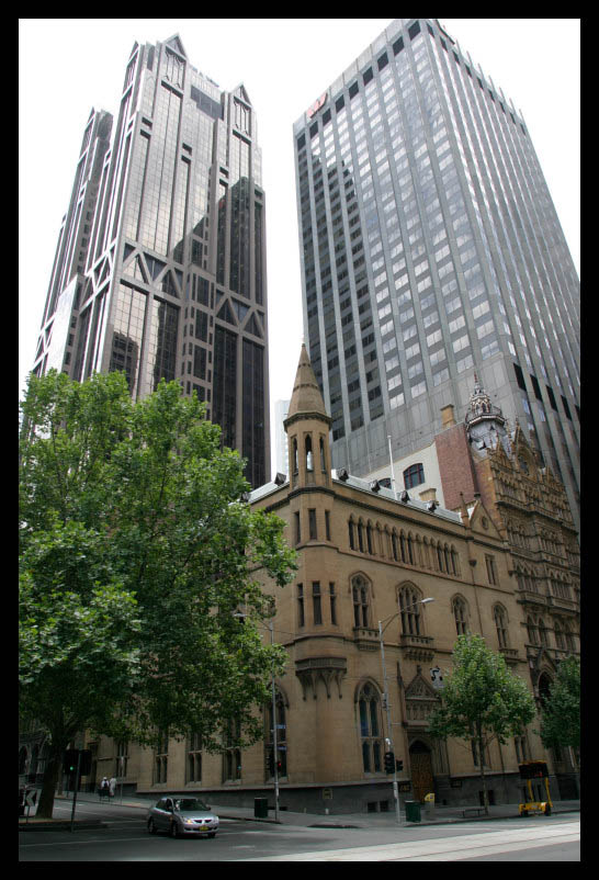 Old buildings in Melbourne, Australia are overshadowed by modern times.